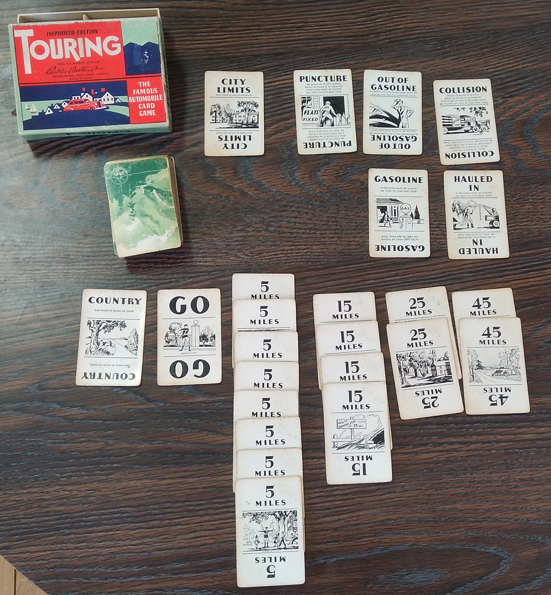 The winning tableau for card game "Touring", as well as it's other cards and the box it came in. 1947-1957 edition.